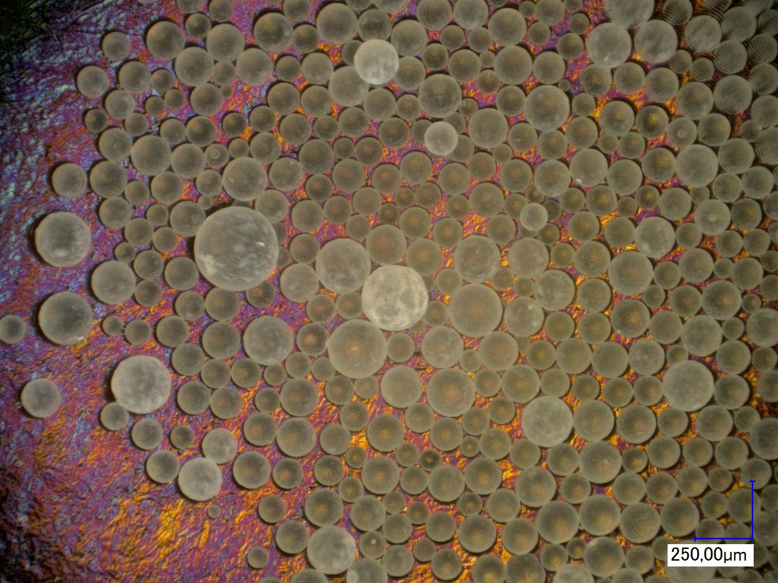 Light microscopic picture of a poly(methyl methacrylate)-copolymer (PMMA-copolymer), fabricated by suspension polymerization